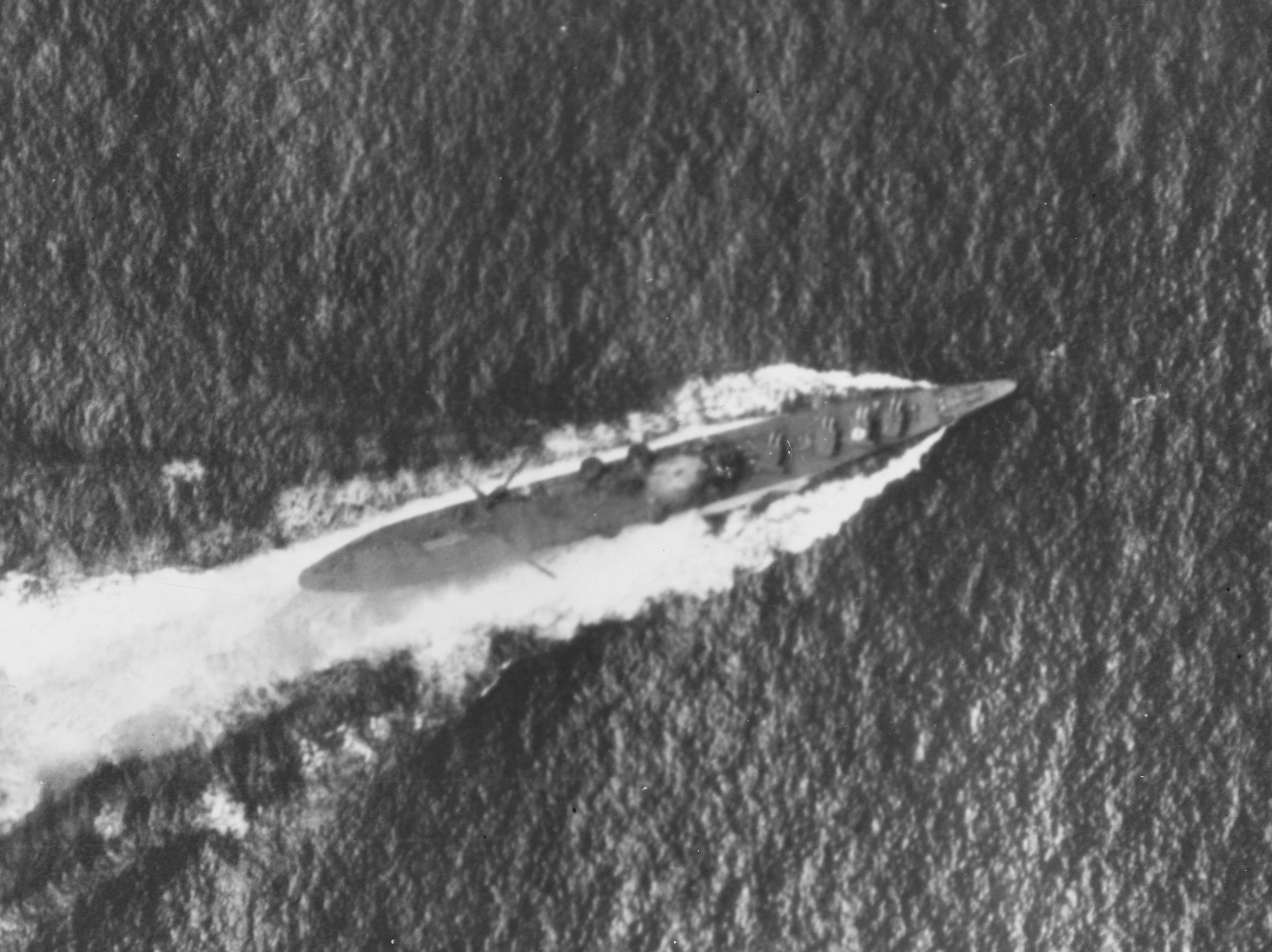 The Japanese heavy cruiser Chikuma under air attack during the Battle of the Santa Cruz Islands, 26 October 1942. Note the smoke coming from her bridge area, which had been hit by a bomb, and what appears to be a recognition marking painted atop her number two eight-inch gun turret. The ship's catapults and aircraft crane appear to be swung out over her sides, aft of amidships.The original photograph came from Rear Admiral Samuel Eliot Morison's World War II history project working files.